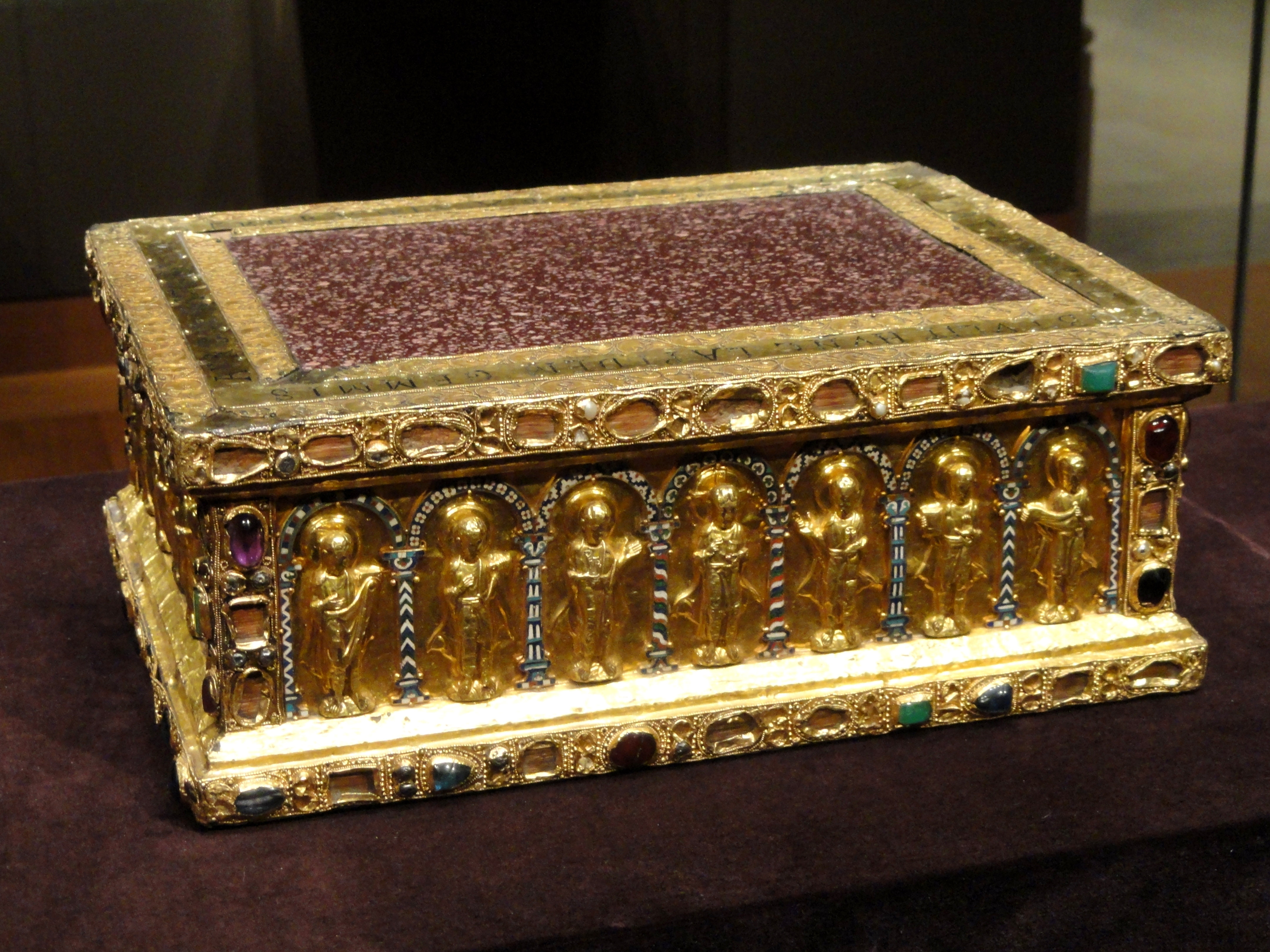 Exhibit in the Cleveland Museum of Art, Cleveland, Ohio, USA. This artwork is old enough so that it is in the public domain.